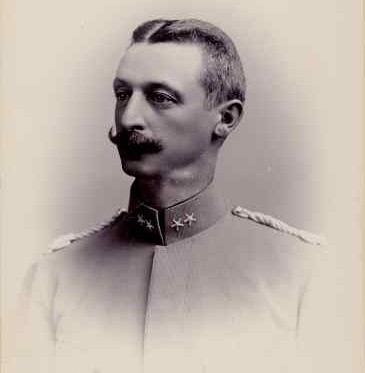 Swedish Colonel and equestrian Gustaf Adolf Boltenstern (1861-1935). The image is slightly cropped from the original in the source.